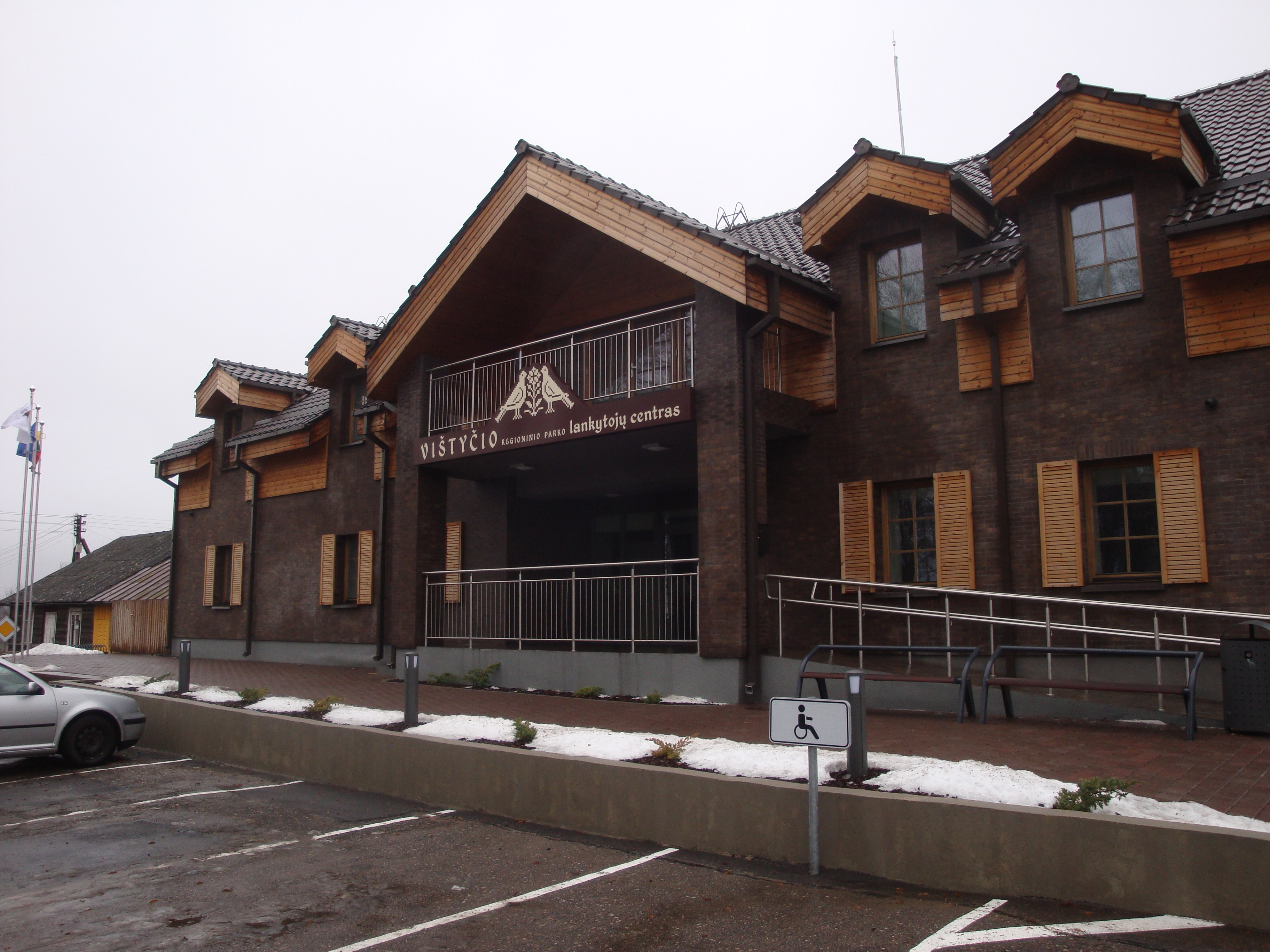 Vištytis - town in southern Lituania. Headquarters of Vištytis Regional Park.